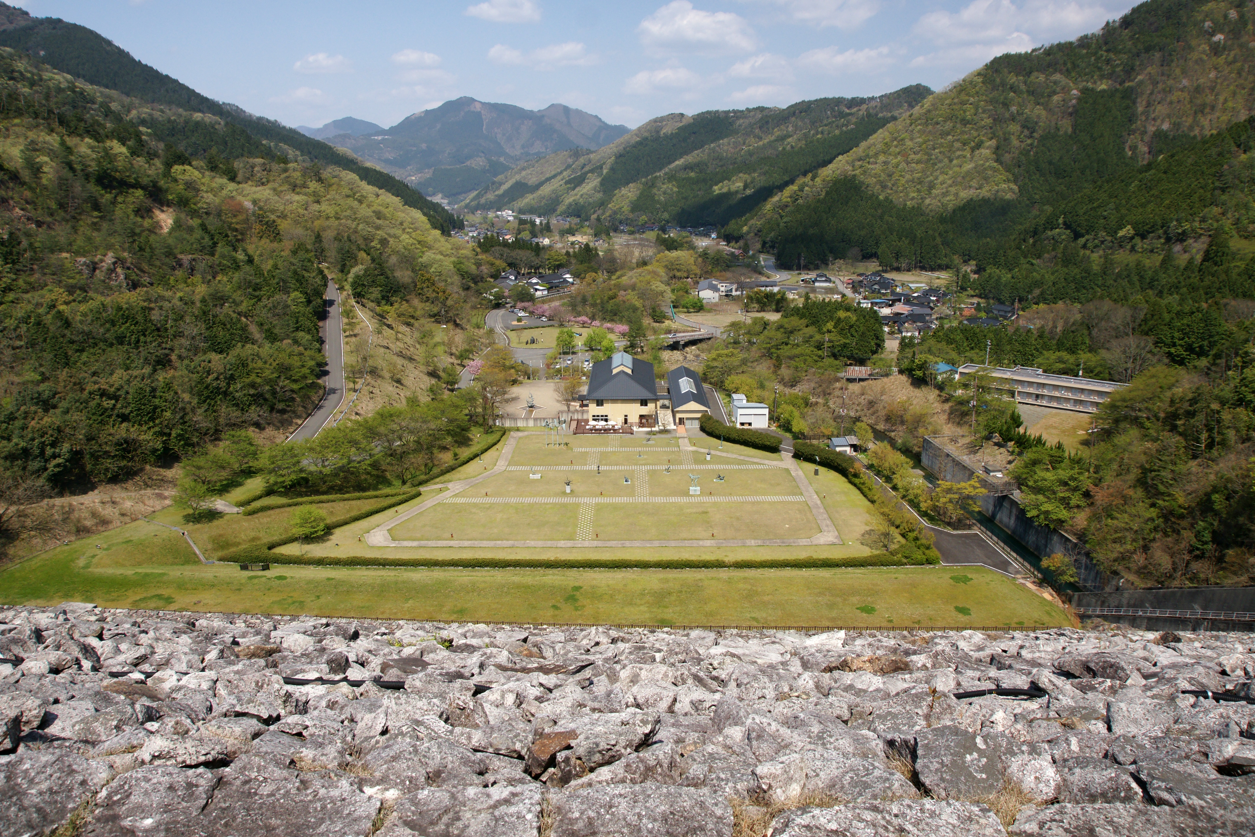 Asago Art Village view from Tataragi Dam in Asago, Hyogo prefecture, Japan.